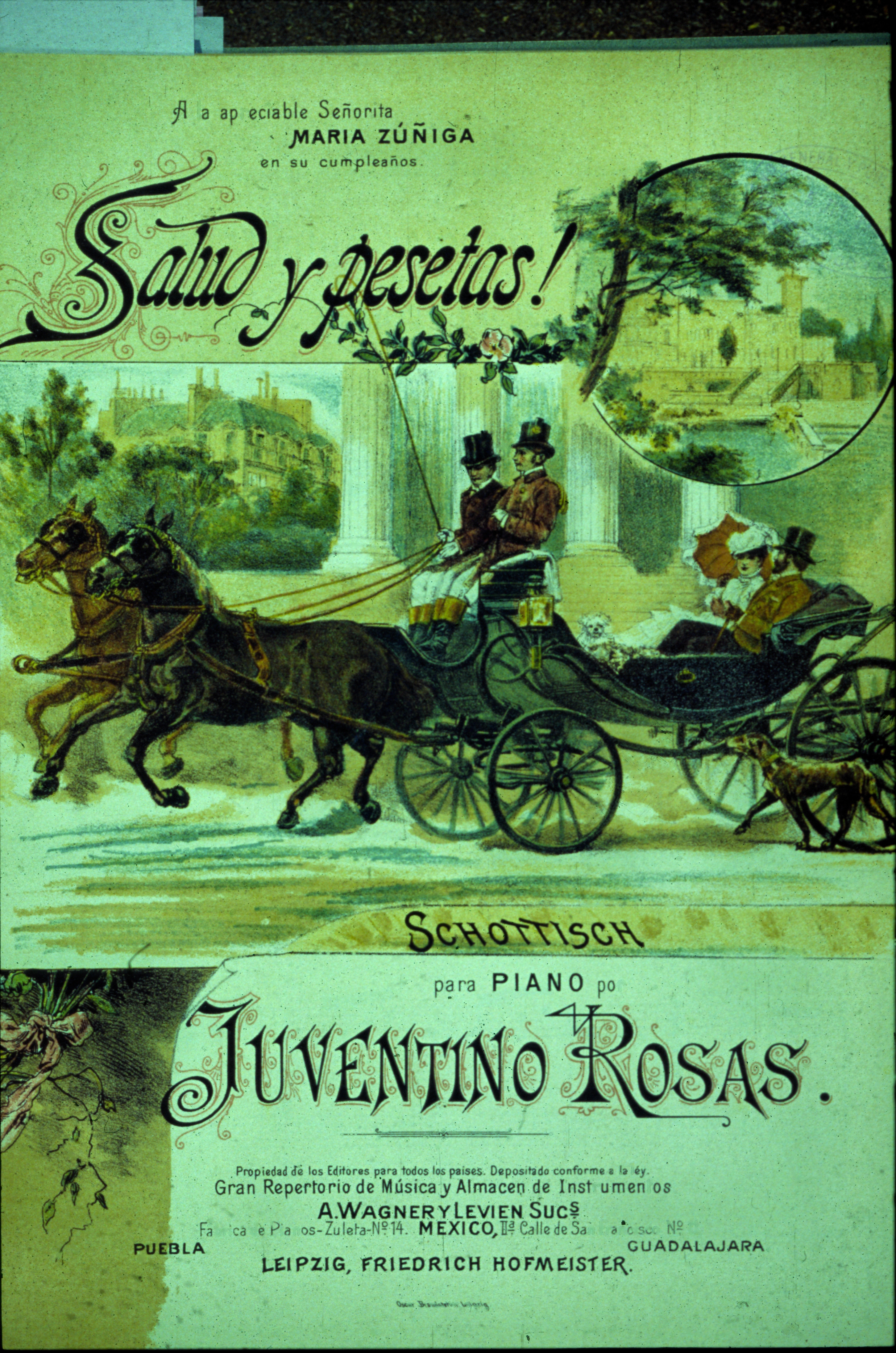 Salud y pesetas Schottisch